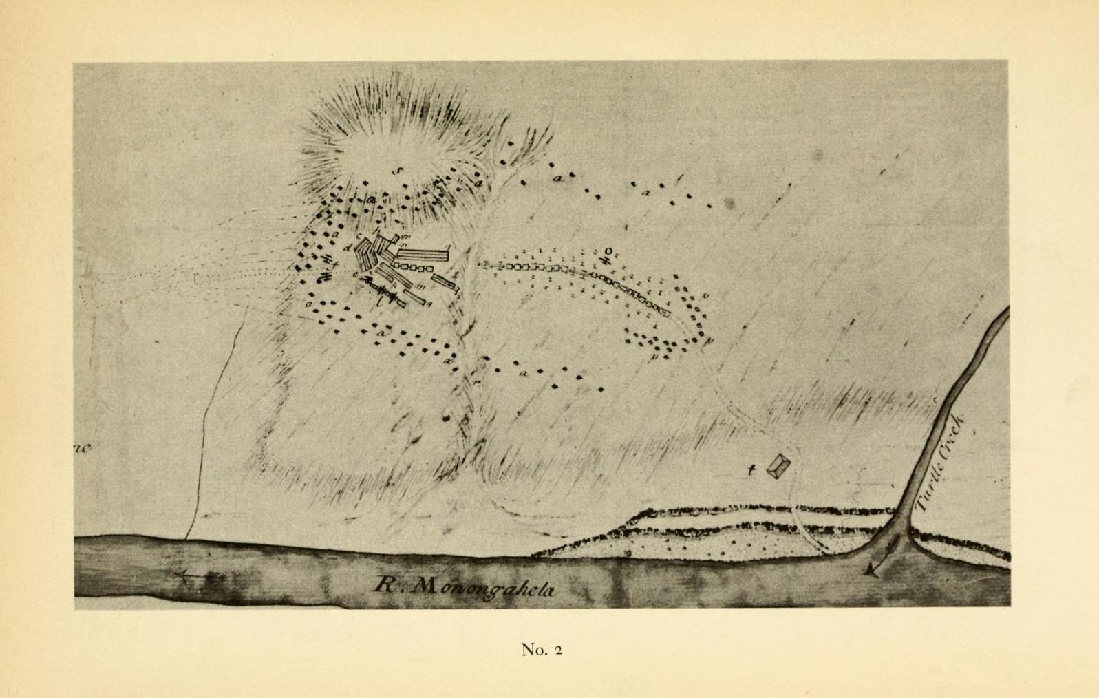 Sketch of the Battle of the Monongahela (1755): A Sketch of the Field of Battle &c, shewing the Disposition of the Troops about 2 a Clock when the whole of the main Body had joined the advanced and Working Partys, then beat back from the Ground they occupied as in Plan No. 1. Explanation a, The French and Indians skulking behind Trees round the Brittish f, The two Field Pieces of the advanced Party now abandoned c, d, e, h, i, k, m, n, q, The whole Body of the British joined, with little or no order, but endeavouring to make Fronts towards the Enemys Fire 1, the three 12 pounder Field Pieces of the main Body o, The rear Field Piece. 12 pounder p, The Rear Guard divided (round the rear of the Convoy, now closed up behind Trees having been attacked by a few Indians N.B. The Disposition on both sides, continued about two hours nearly as here represented, the British endeavouring to recover the Guns (f) and to gain the Hill (s) to no purpose. It was proposed to take possession of this Hill before the Indians did, but unhappily it was neglected. The British were at length beat from the Guns (1). The General was wounded soon after. They were lastly beat back accross the Hollow way (r) and made no farther Stand. All the Artillery, Ammunition, Provision & Baggage were left in the Enemys Hands, and the General was with difficulty carryed off. The whole Action continued about three hours and a half. The Retreat was full of Confusion, but after a few Miles, there was a Body got to rally.